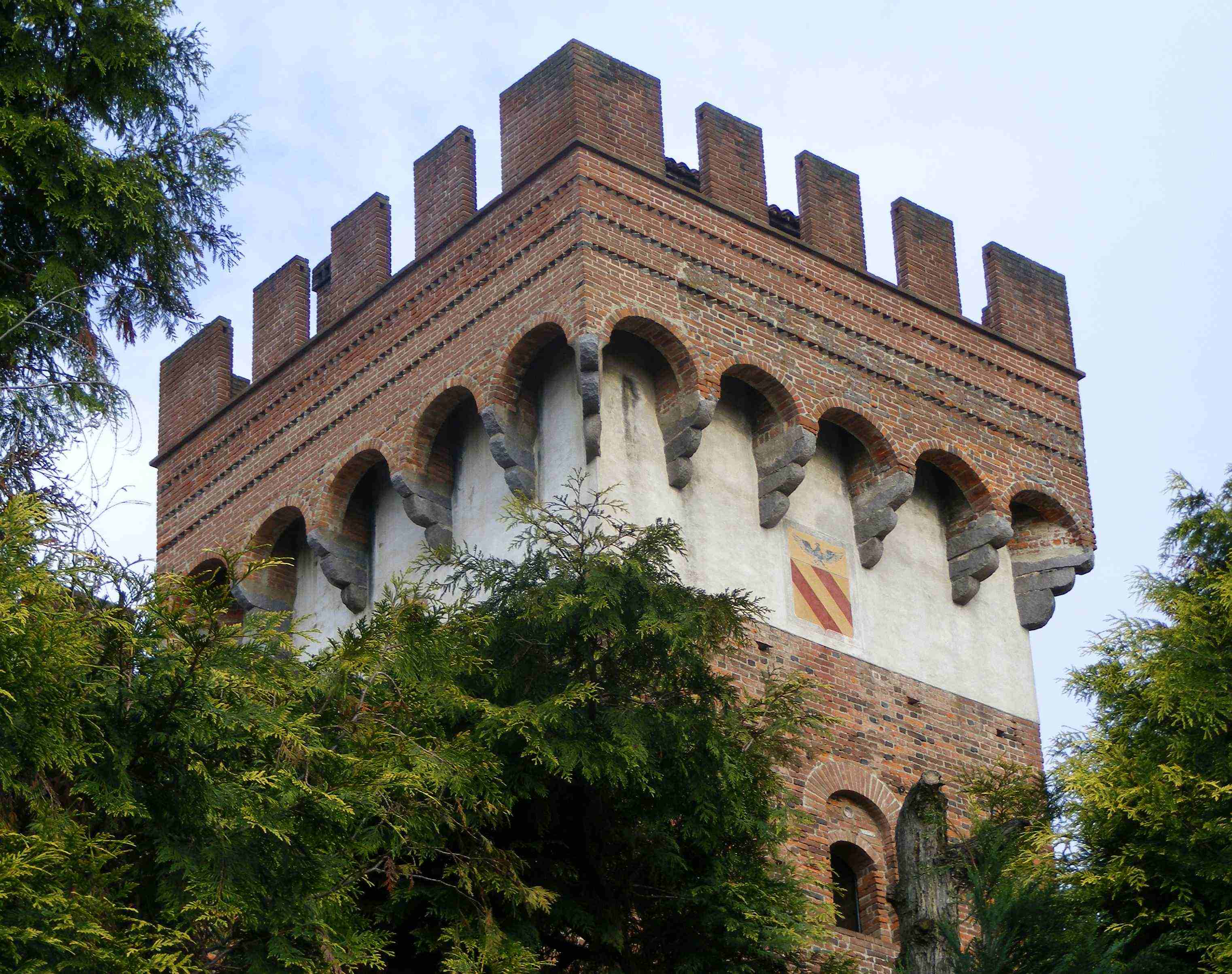 Castle of Verrone (BI, Italy): the great tower